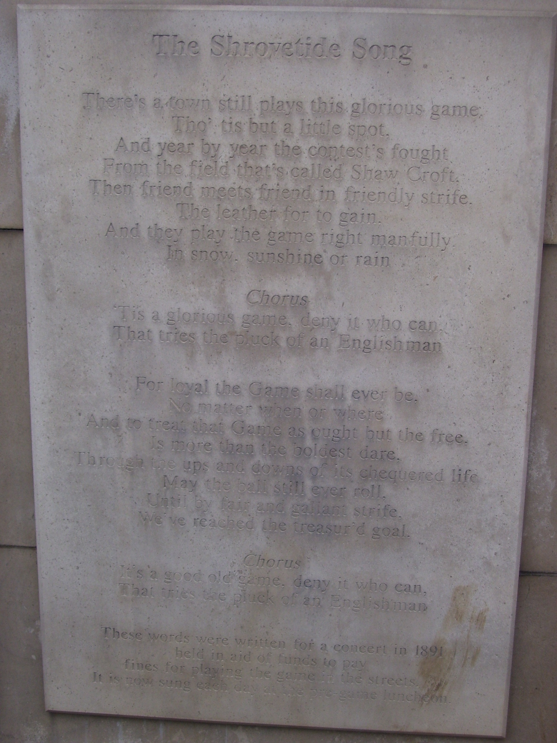 Plaque mounted on the Plinth showing the lyrics of the Royal Shrovetide Football song from 1891.